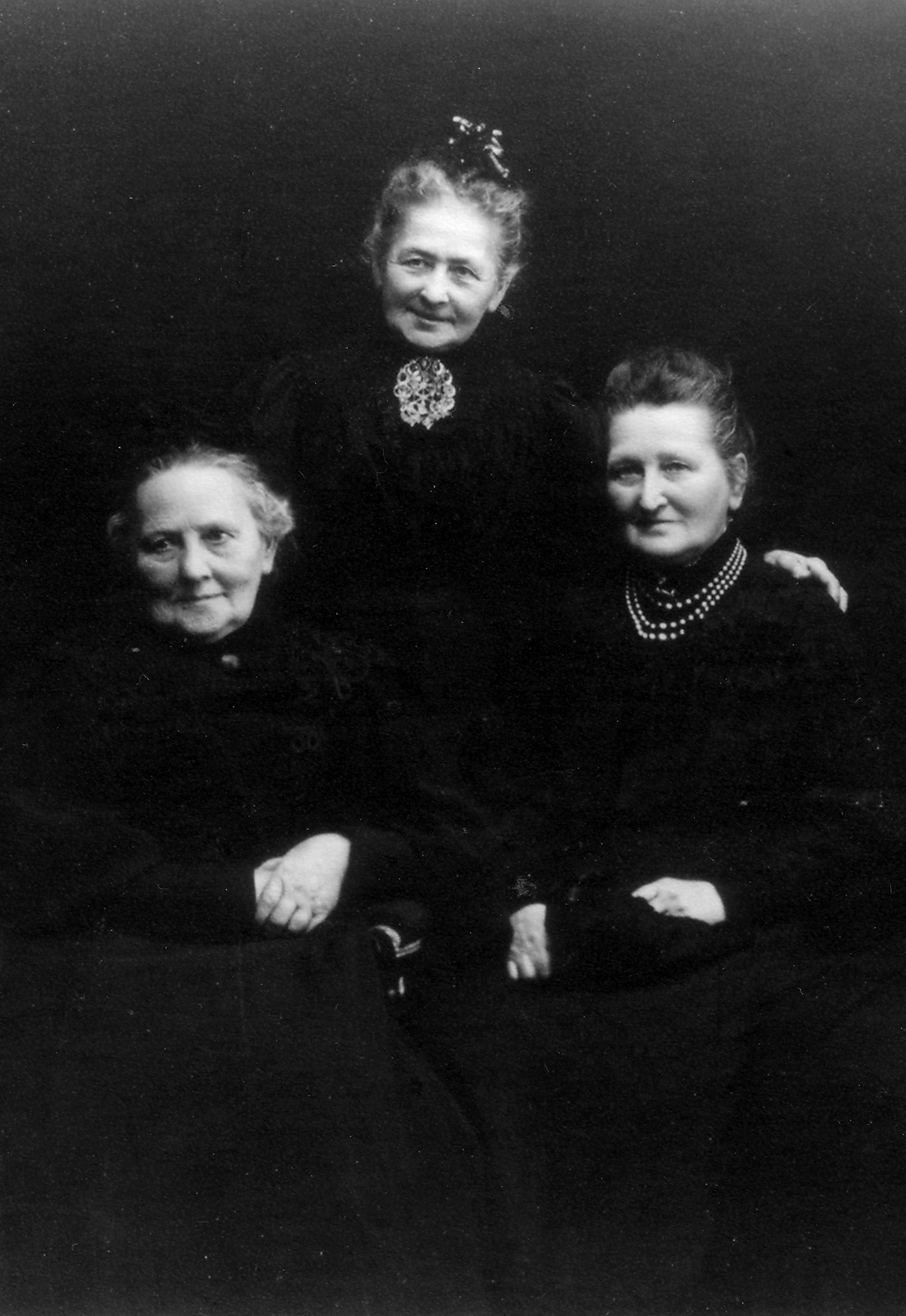 Portrait of sisters Aimée, Jeanette og Christiane Thaulow, founders of theThaulow Museum in Oslo